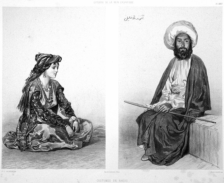 azeri in Baku